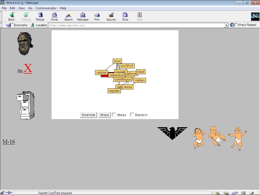 A Screenshot of Teo Spiller's net.art Capriccess for Netscape